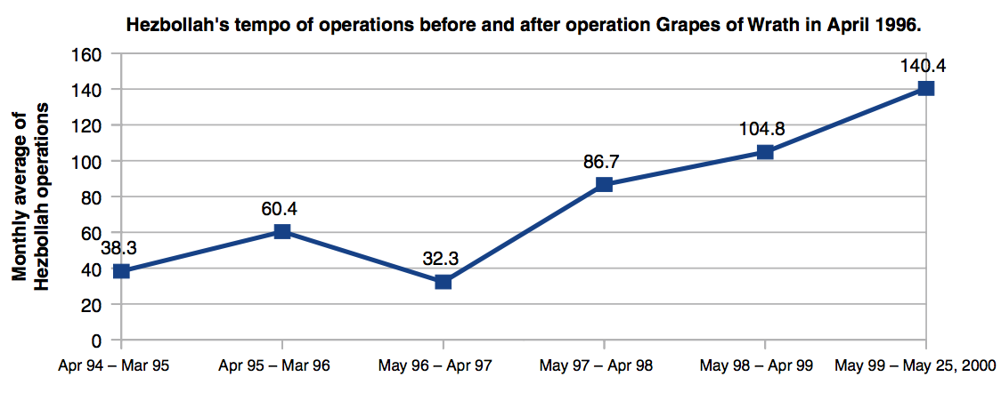 A graph of the monthly average number of Hezbollah operations from April 1994 to May 2000. Original description: Note: Attacks conducted in April 1996 are excluded from this figure as the 639 Katyushas fired into Northern Israel during Operation Grapes of Wrath represented an unique intensity in operations. Except for the Katyushas, Hezbollah conducted 54 attacks in april 1996. Source: 64 monthly reports of Hezbollah’s diary of resistance operations available at